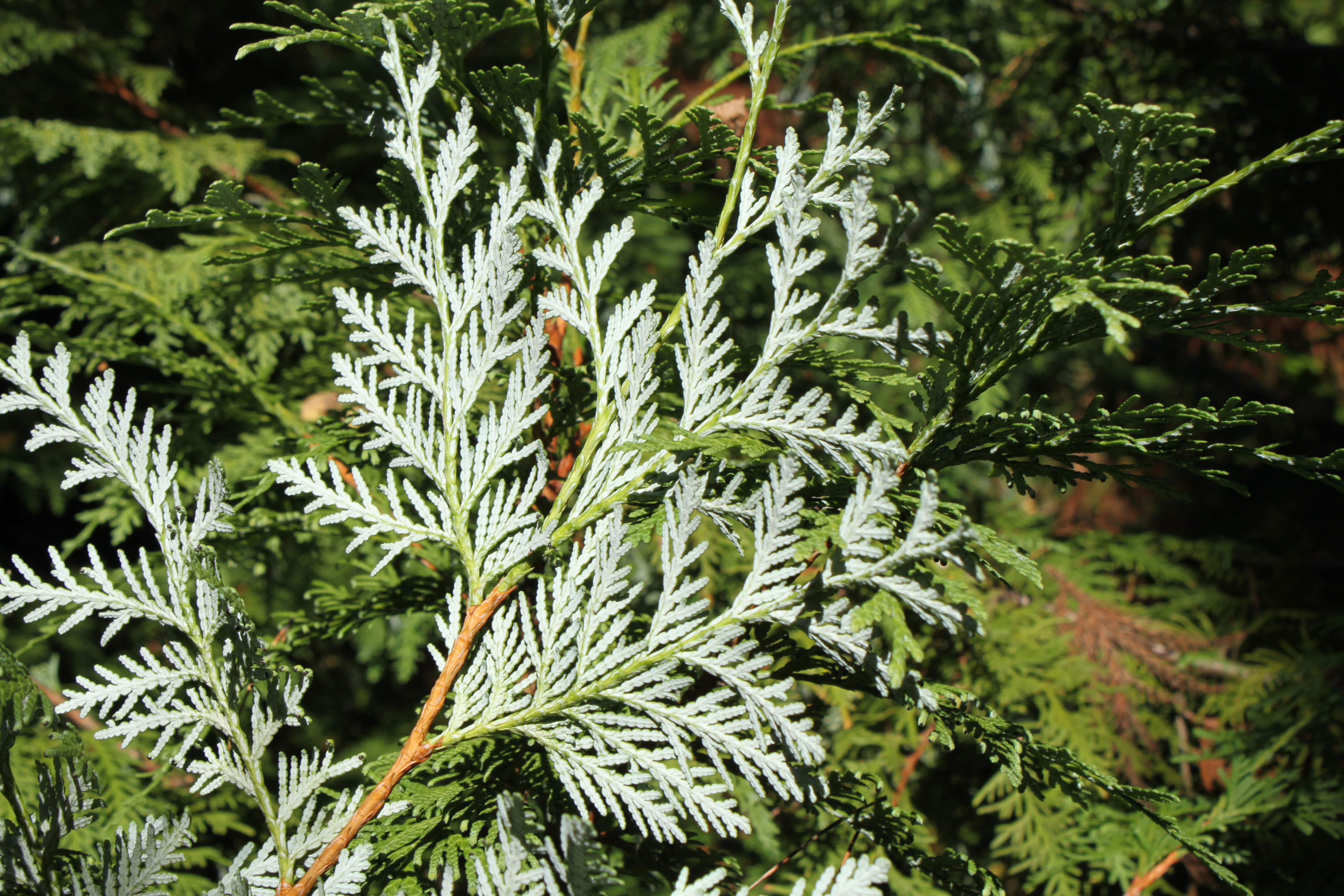 Thuja koraiensis foliage underside in Arboretum in PAN Botanical Garden in Warsaw, Poland